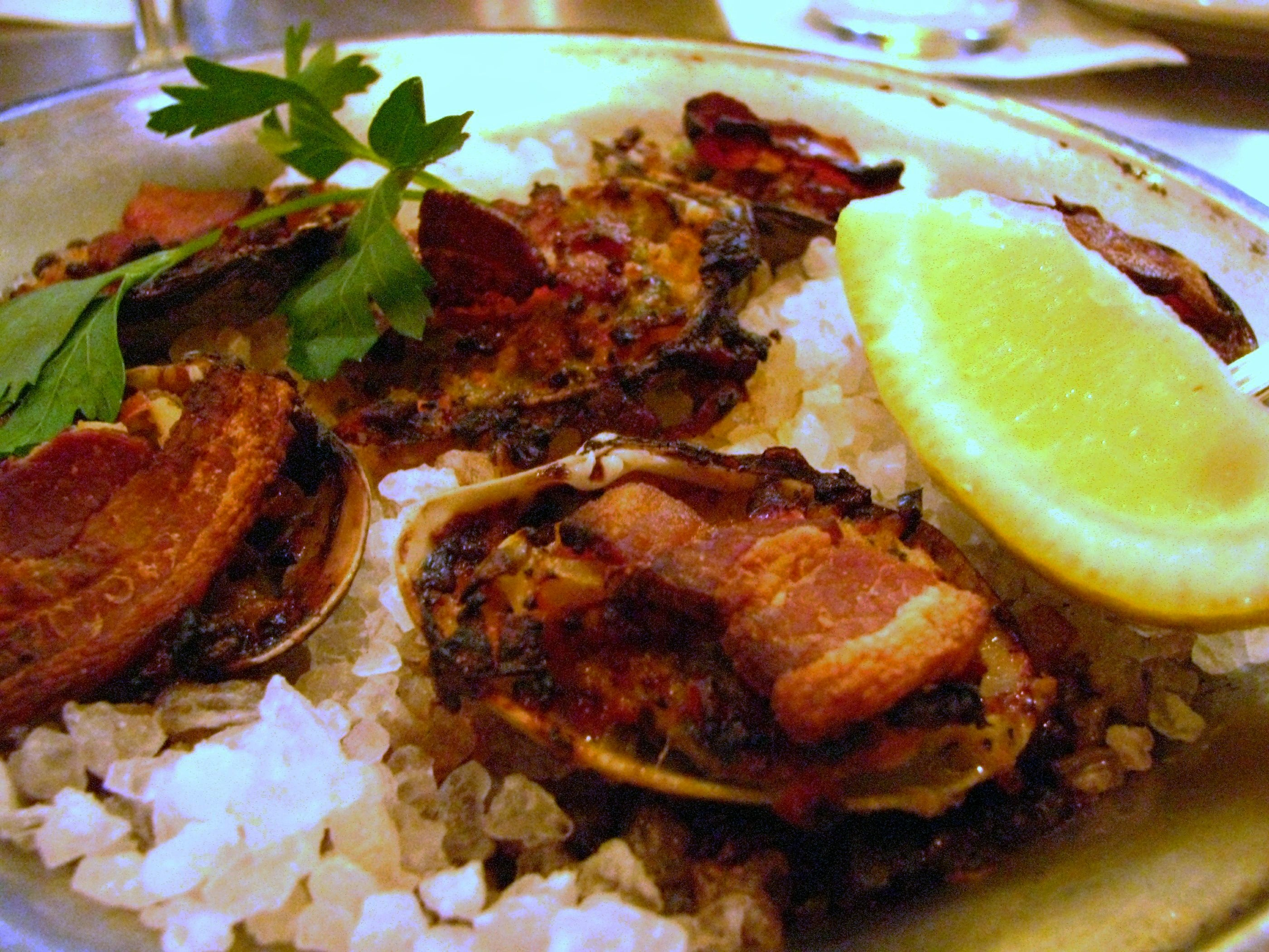 A Clams casino over rock salt with lemon and parsley garnish. Photo by SheriW from Flickr. Attribution required